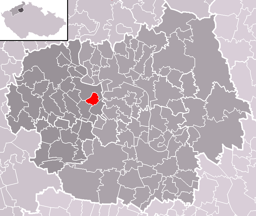 Location of Lukavec municipality within Litoměřice District and administrative area of Lovosice as a Municipality with Extended Competence.